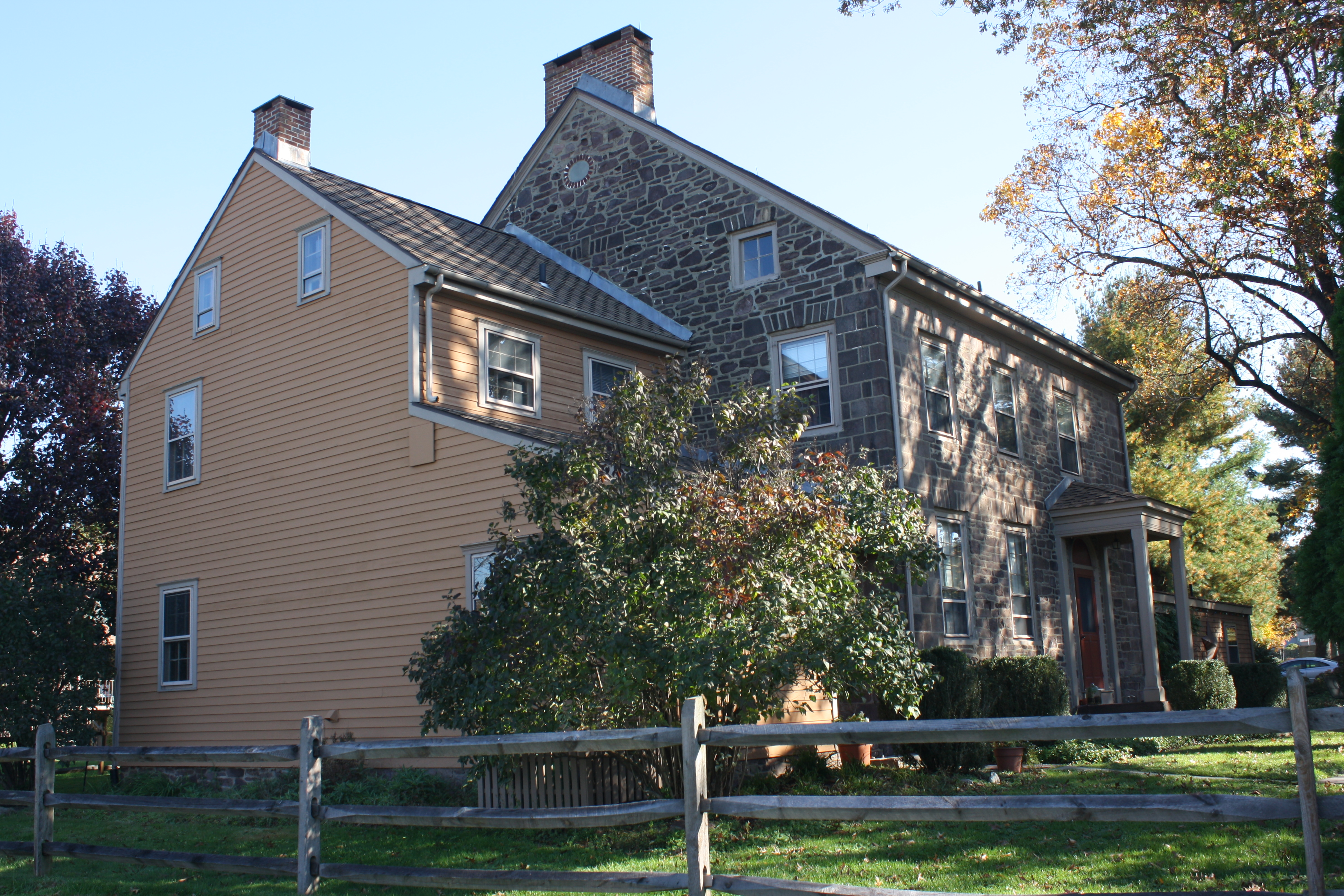 David Leedom Farm, also known as "Pleasant Retreat," is a historic home and farm located at Newtown Township, Bucks County, Pennsylvania. Object location40° 13′ 18.84″ N, 74° 57′ 24.84″ W